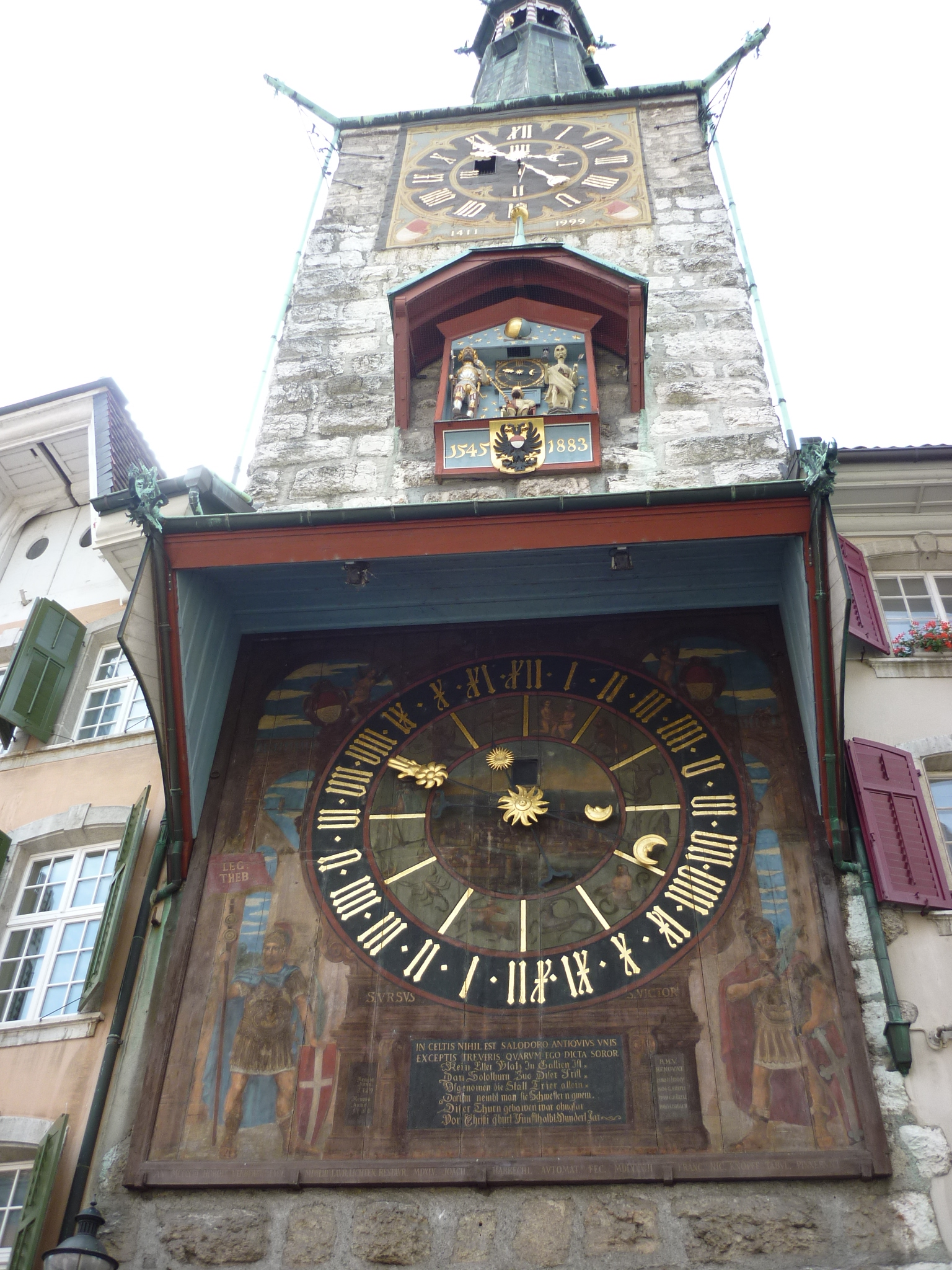 Zeitglockenturm Solothurn, Schweiz